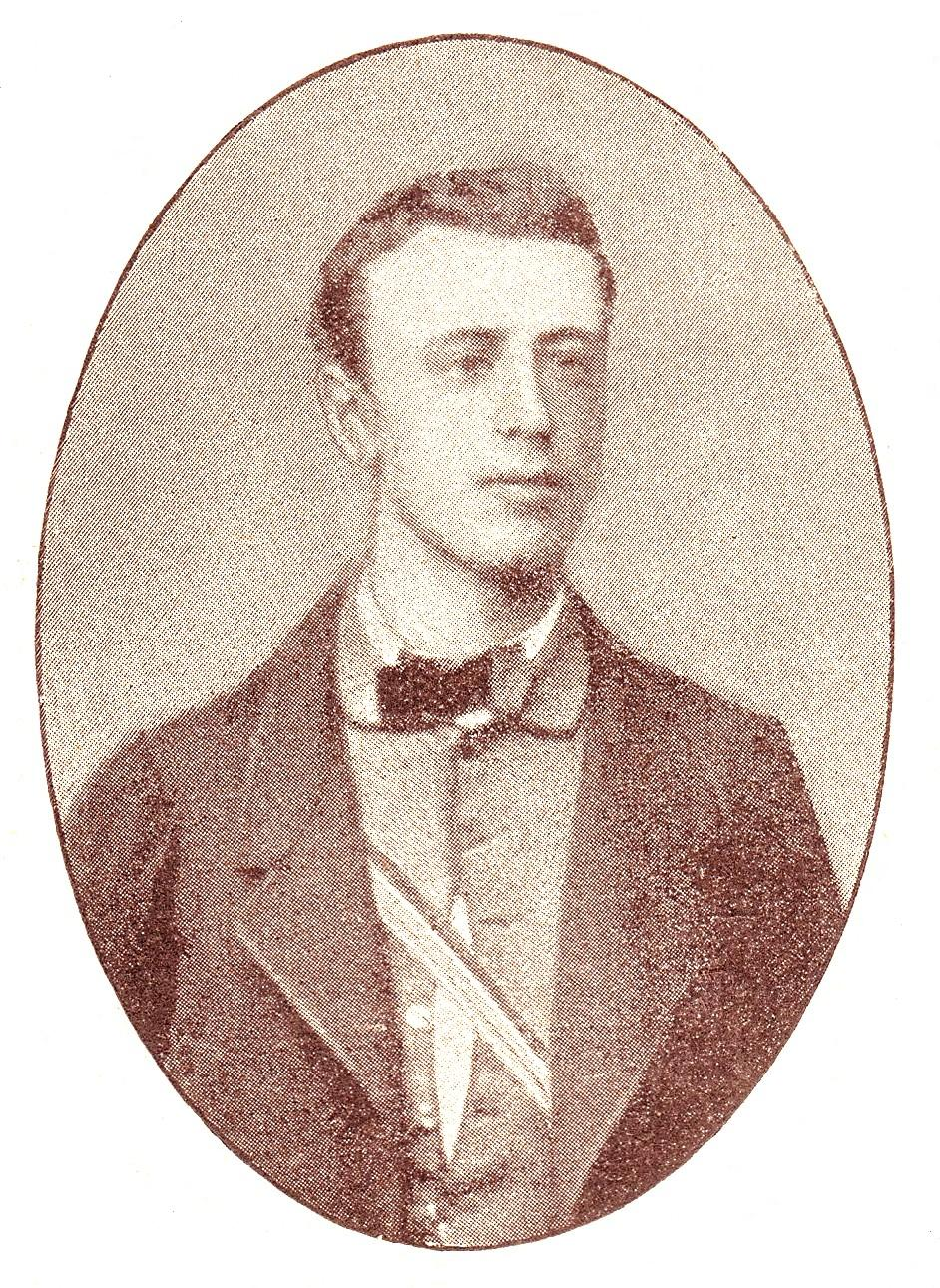 Eugen Zimmerer, later to be governor of the colony of Kamerun